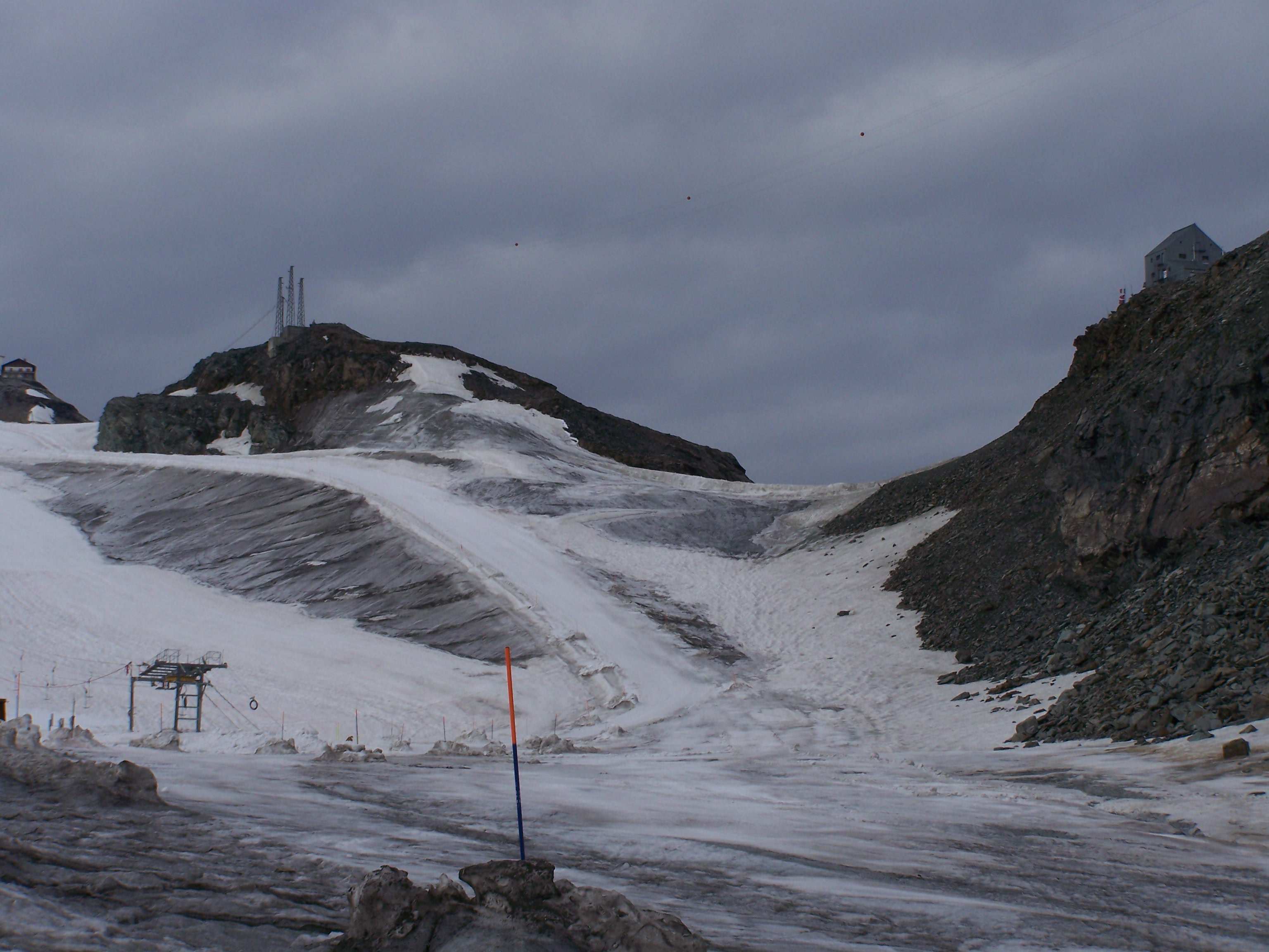 The Theodulpass south of Zermatt, between Italy and Switzerland, Penninic Alps. Picture taken from the northeast. To the right is the rifugio Teodulo (CAI)